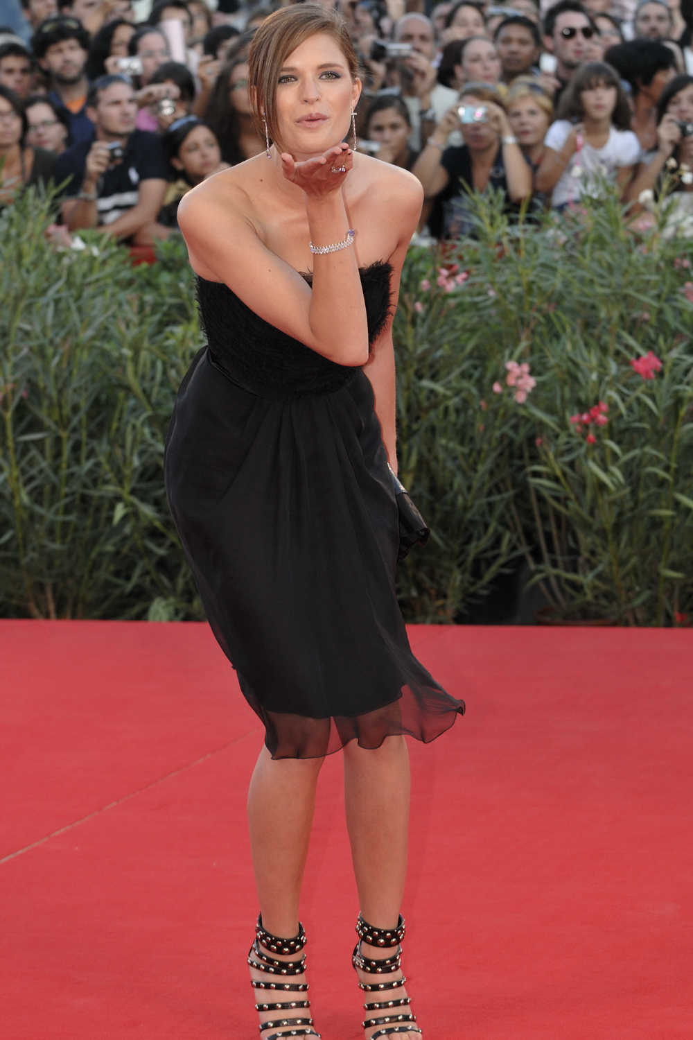 Alessia Piovan at the 66th Venice International Film Festival in 2009, for The Men Who Stare at Goats.